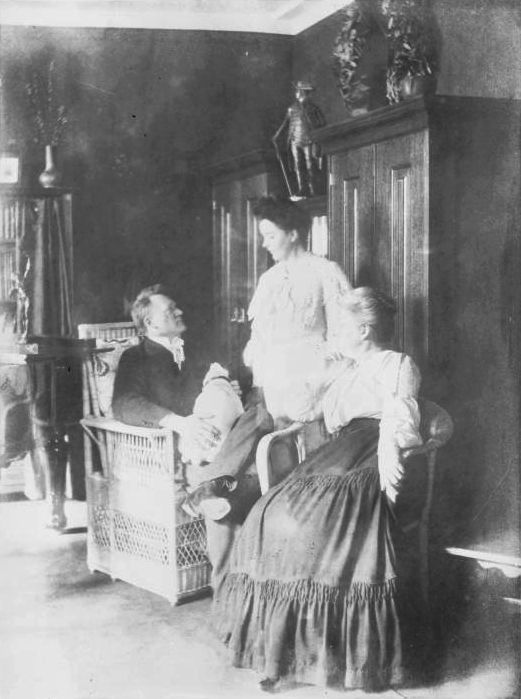 German sculptor Joseph Uphues (1851-1911) with singer Mary Münchhoff.